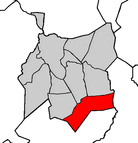 Location of the parish of Vigo in the municipality of Cambre (Galicia, Spain)